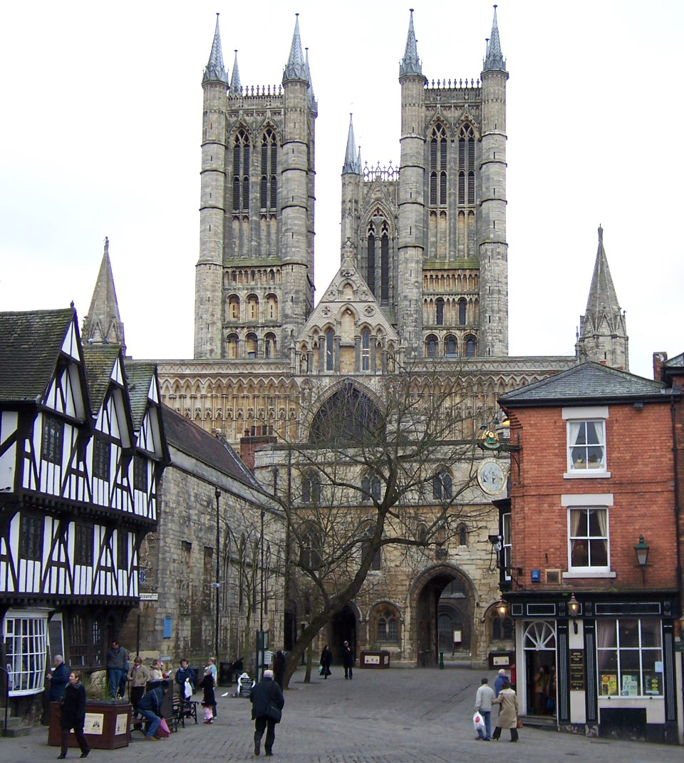 Lincoln Cathedral as seen from the Castle Hill, Lincoln (England) cropped from File:Lincoln Cathedral from Castle Hill.jpg